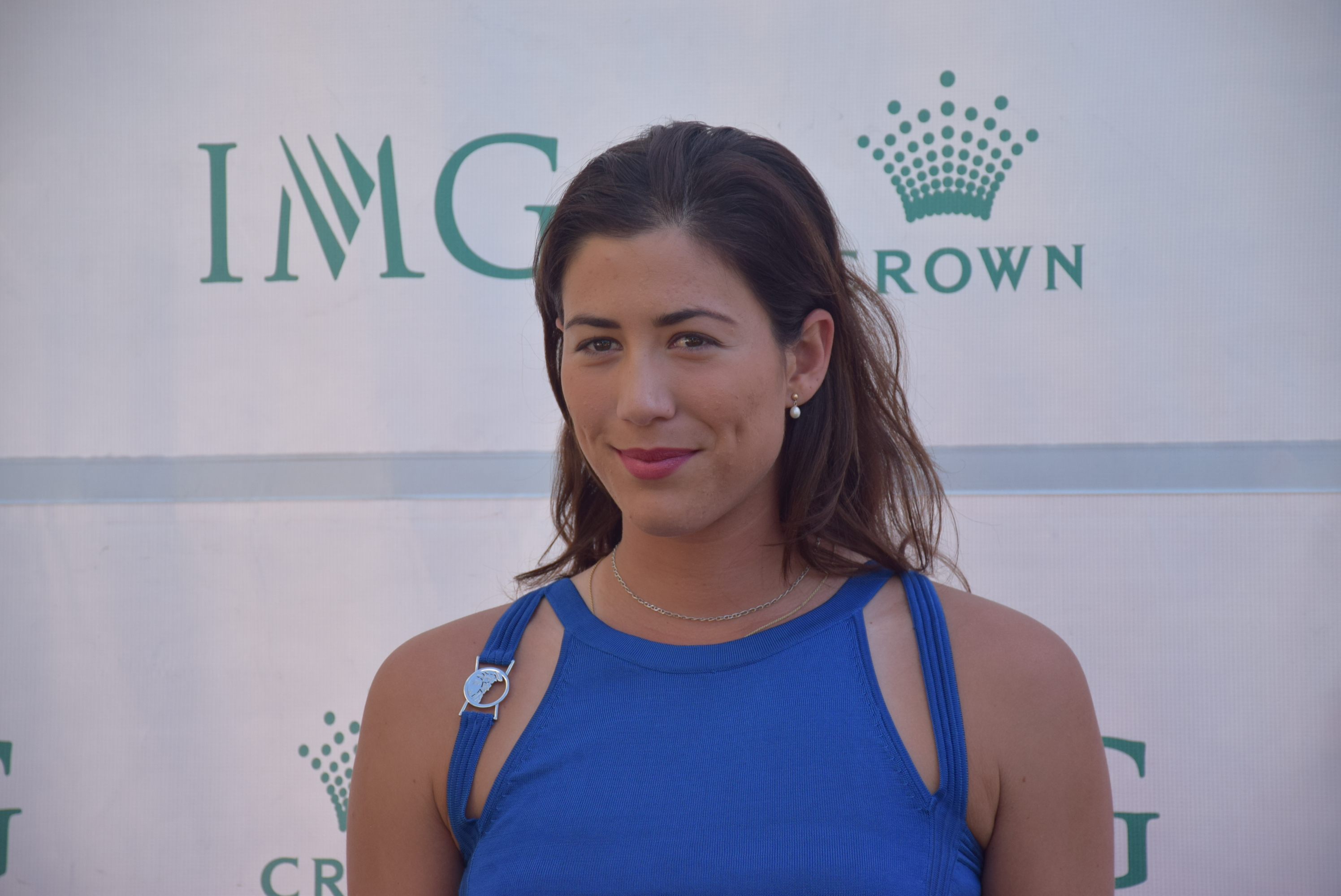 Garbine Muguruza (Spain), Australian Open Players' Party